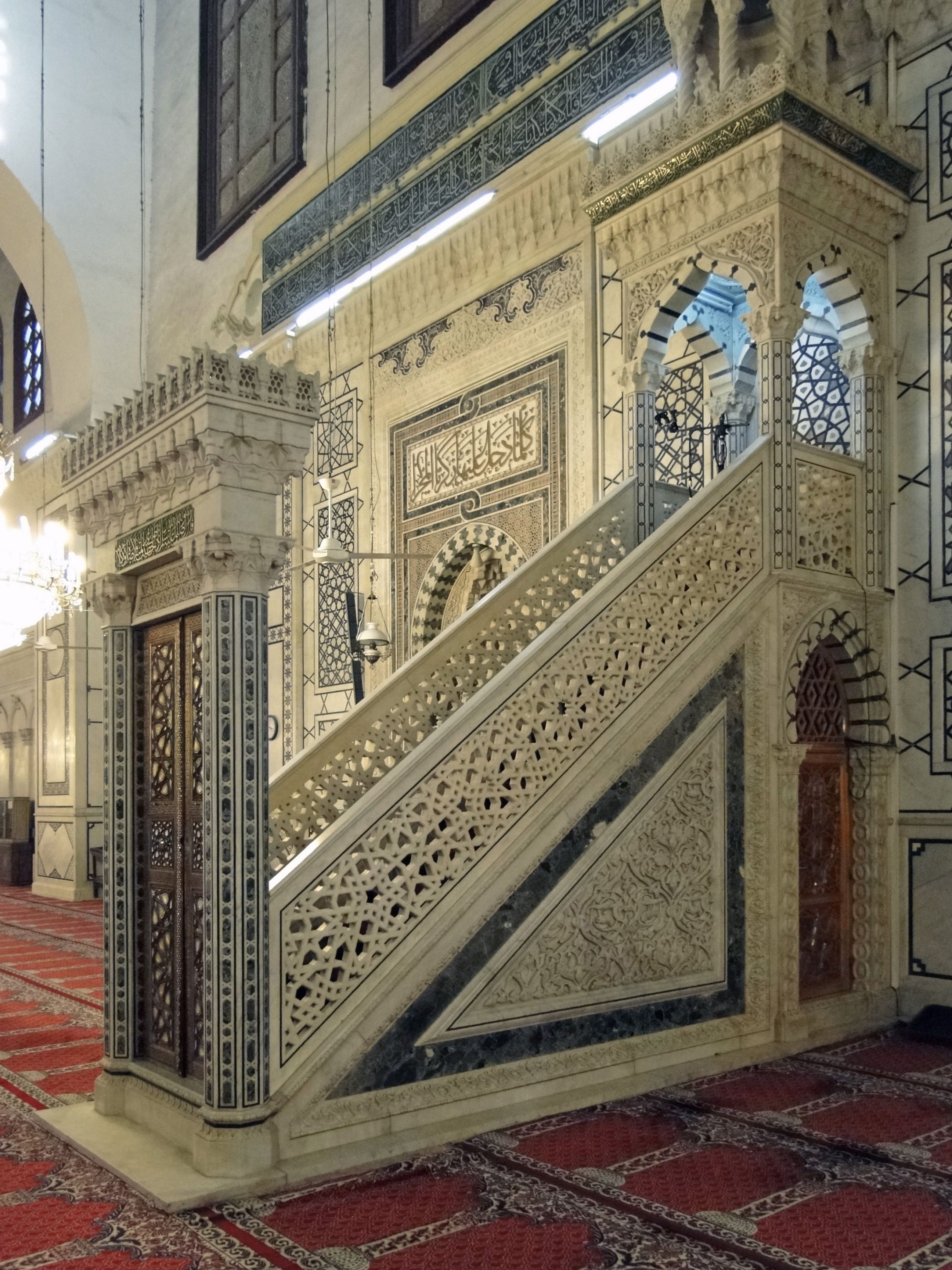 Minbar in the Umayyad Mosque, Damascus, Syria